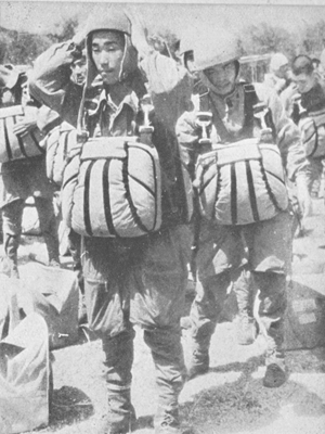 Imperial Japanese Army paratroopers are getting ready for a jump.